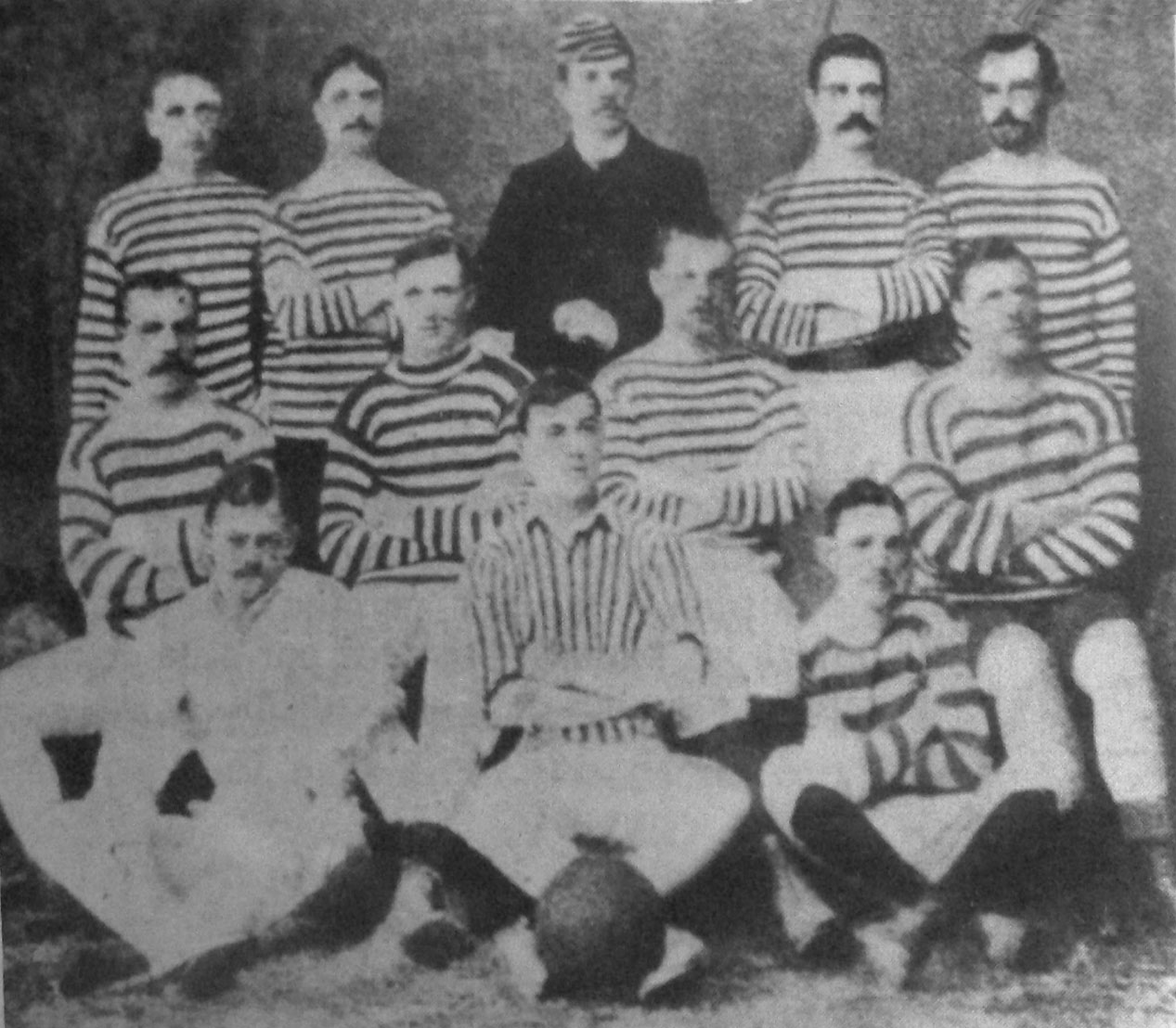 St. Andrew's football team of 1891. This squad was the first Argentine champion ever, defeating Old Caledonians FC in the final game that same year. From left to right, up: Francis, Caldwell, Alexander, Waters, Wilson. Middle: J. Buchanan, A. Buchanan, Smith, Piuman. Down: Carter, Lamont (secretary of the Association) and Morgan.